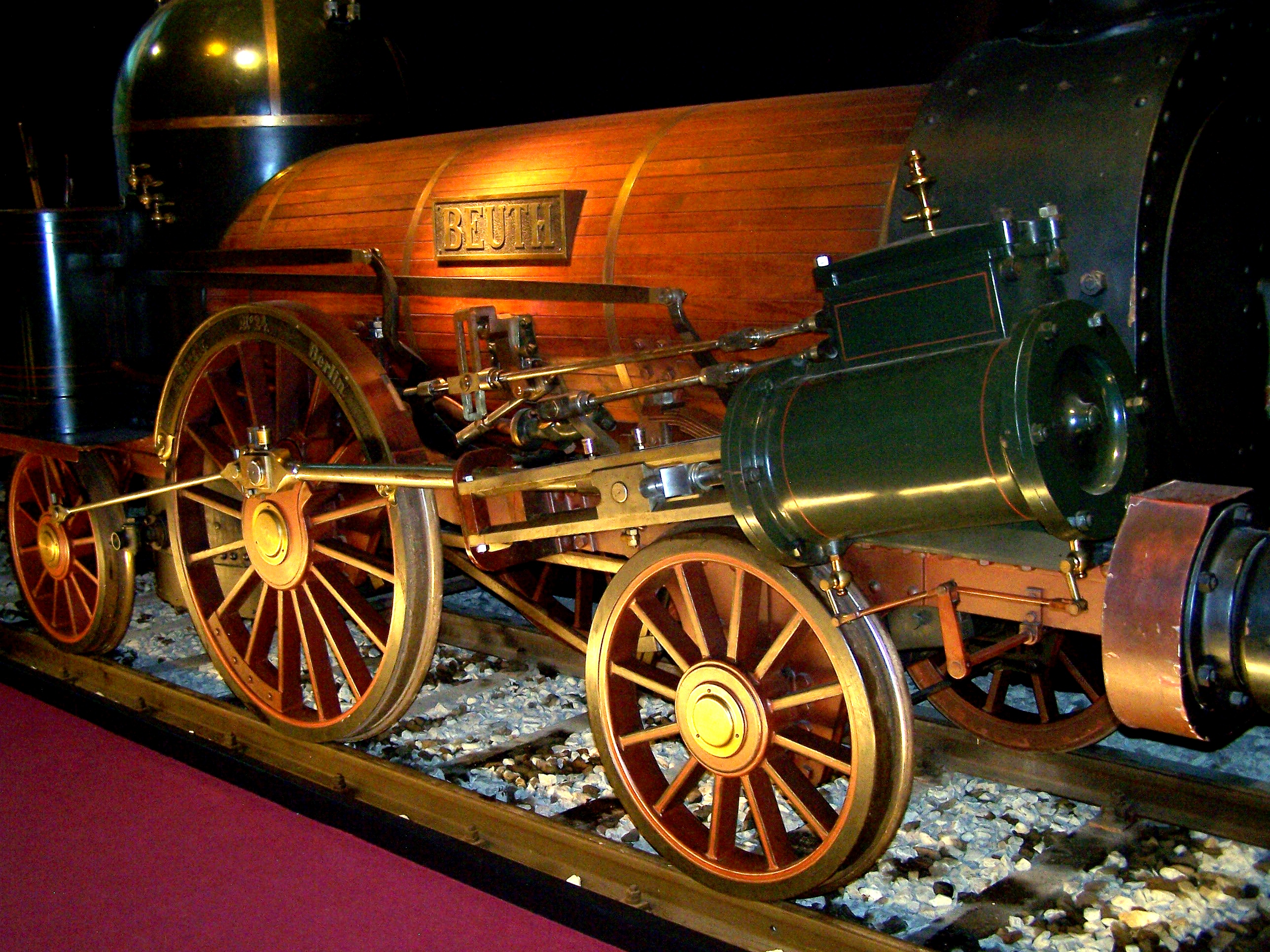 Replication from 1912 of the historic steam locomotive Beuth from 1844 by August Borsig in the Transport Museum in Nuremberg in the exhibition "Adler, Rocket and Co."